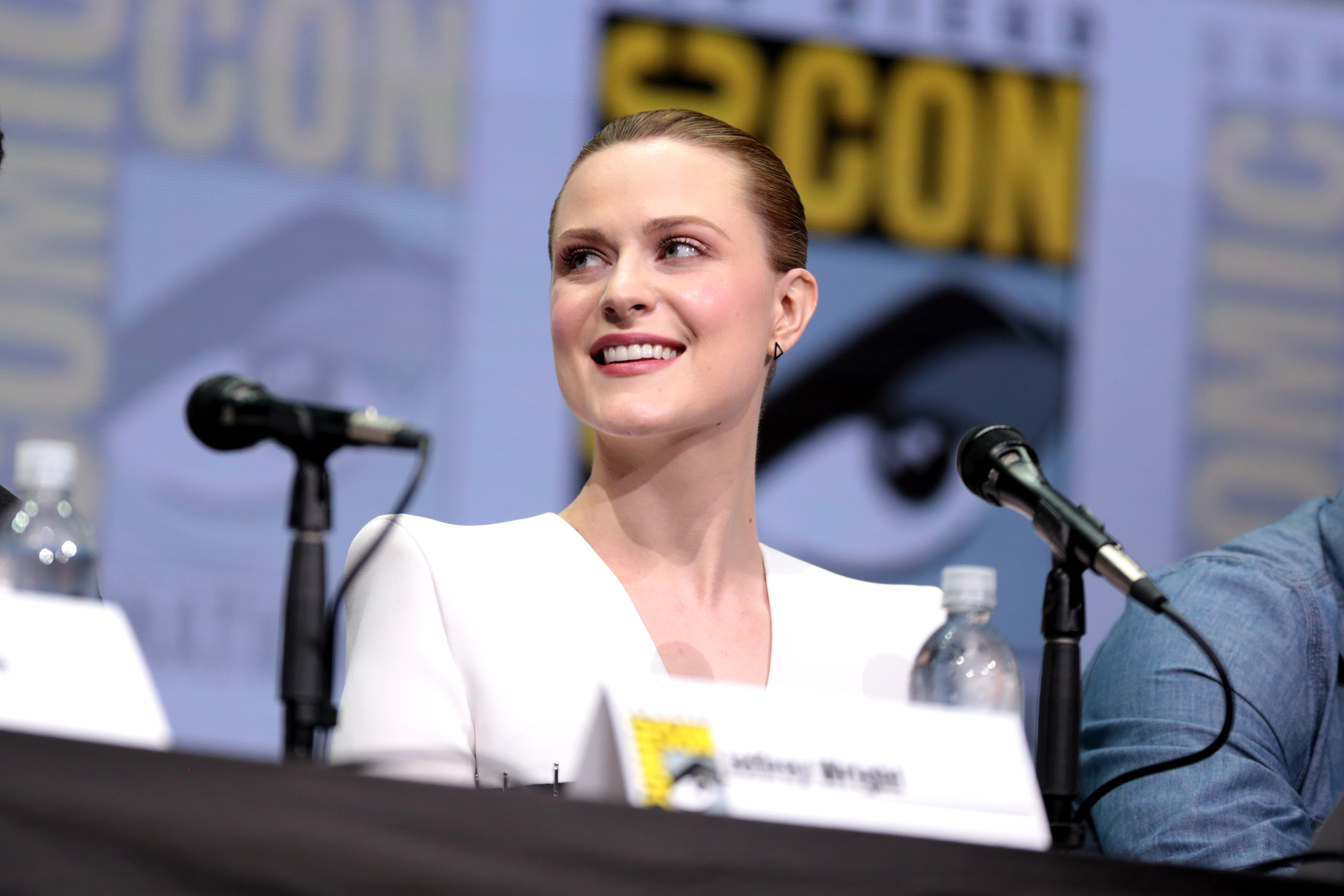 Evan Rachel Wood speaking at the 2017 San Diego Comic Con International, for "Westworld", at the San Diego Convention Center in San Diego, California.